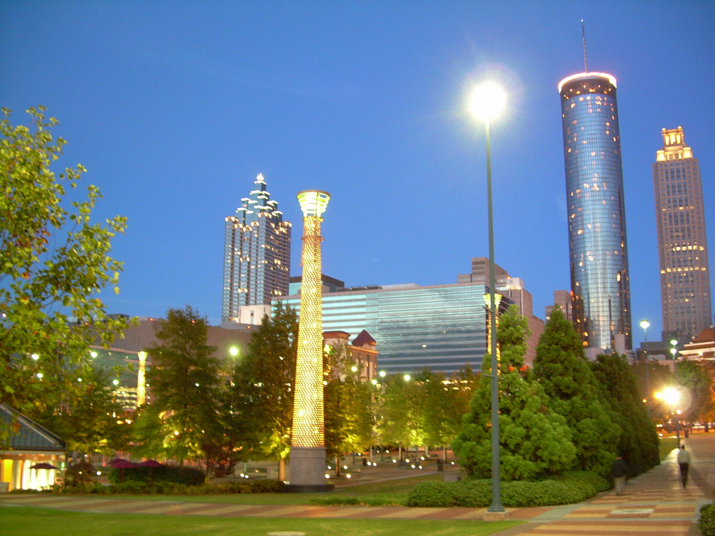 Atlanta, GA this is a shot near the convention center skyscrappers infront of a park